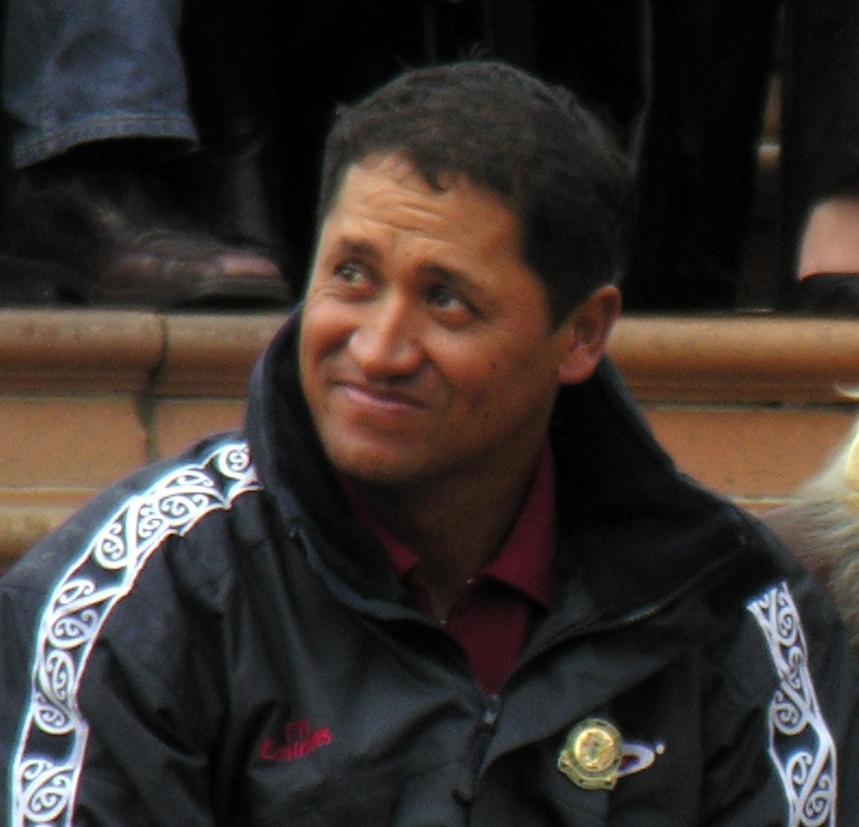 New Zealand golfer and US Open champion Michael Campbell in Wellington 2005. Cropped from photo by Phillip Capper